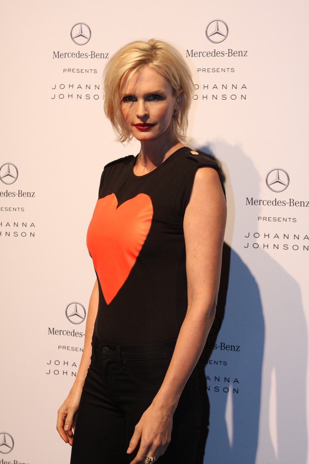 Sydney Australia, A model showcases designs by Johanna Johnson on the Catwalk day two of Mercedes Benz Fashion week Australia, Spring Summer 2012/2013 at the Overseas Passenger Terminal Photo by Eva Rinaldi/Splash News